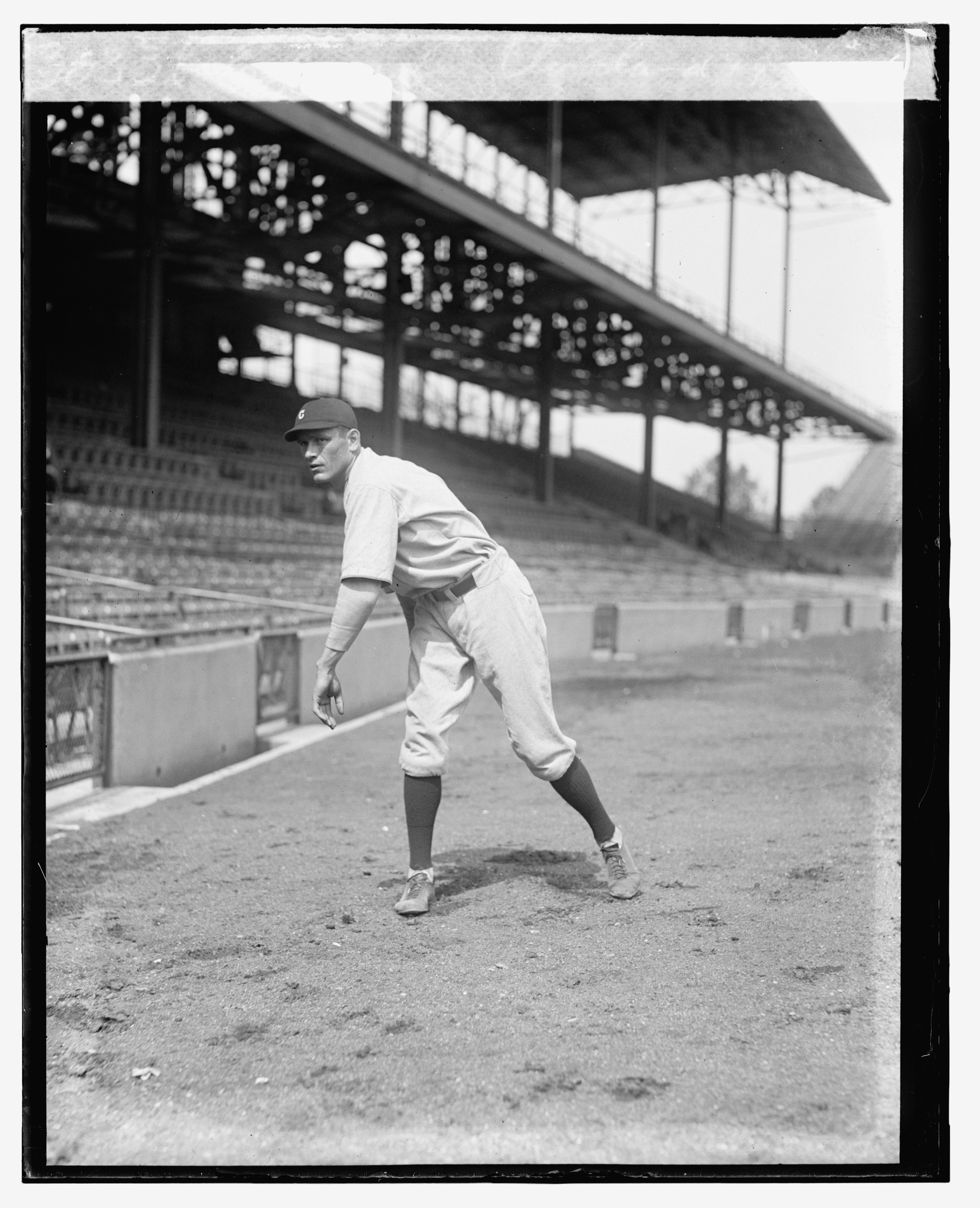 Title: Edwards, Cleveland, 1924 Abstract/medium: National Photo Company Collection (Library of Congress) Physical description: 1 negative